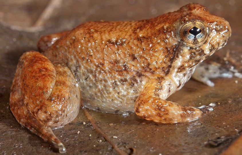 Ingerana borealis in Pakke Tiger Reserve, East Kameng District, Arunachal Pradesh (India)